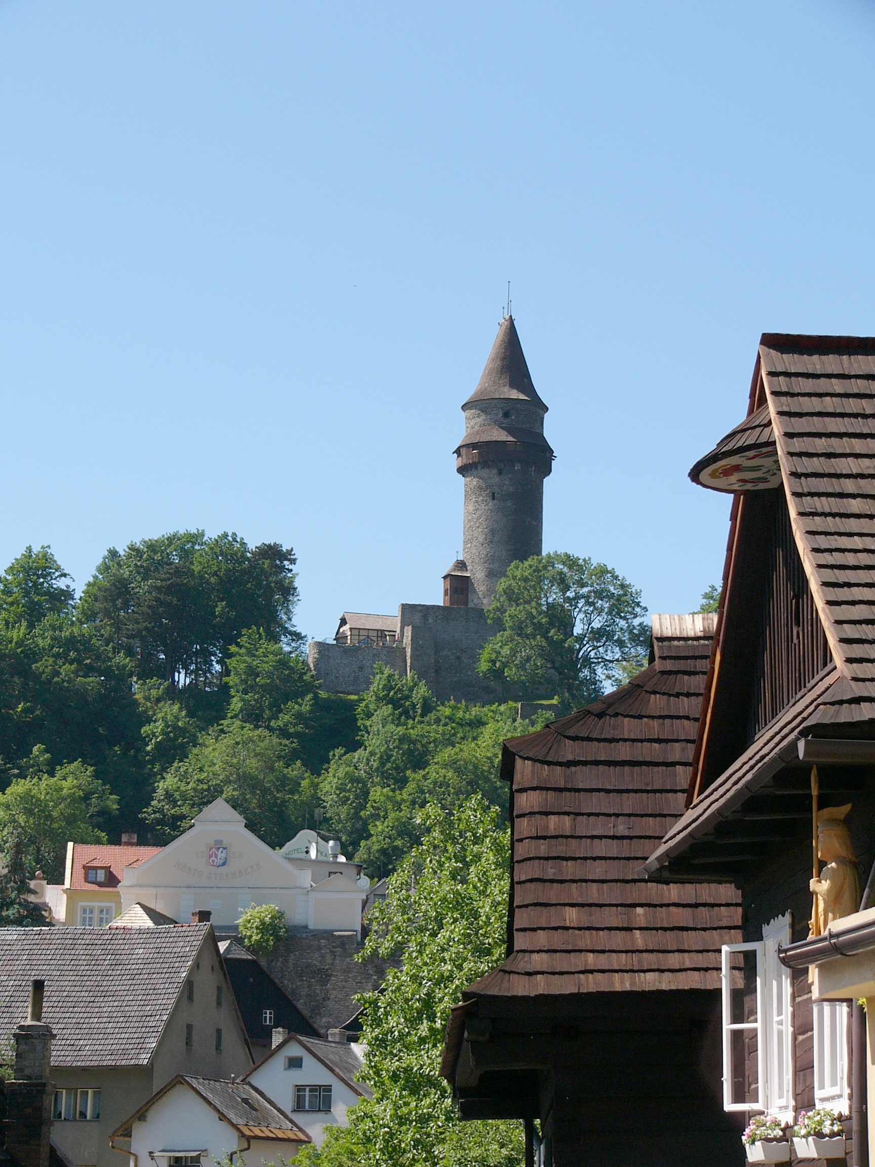 Štramberk (Czech Republic).